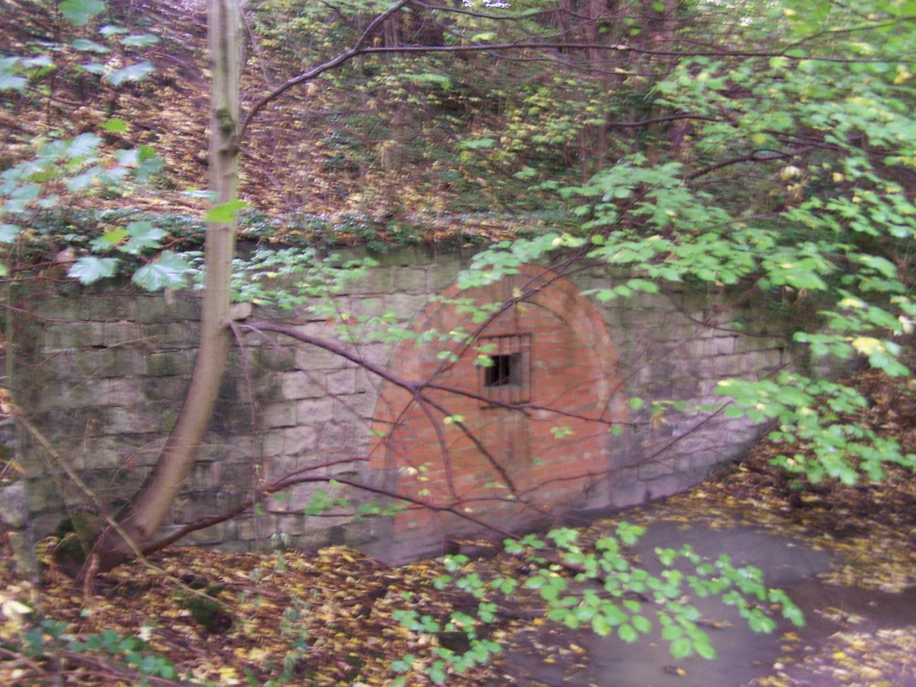 Author: Tina Cordon, Source: Own Picture Tina Cordon 16:21, 27 October 2006 (UTC)